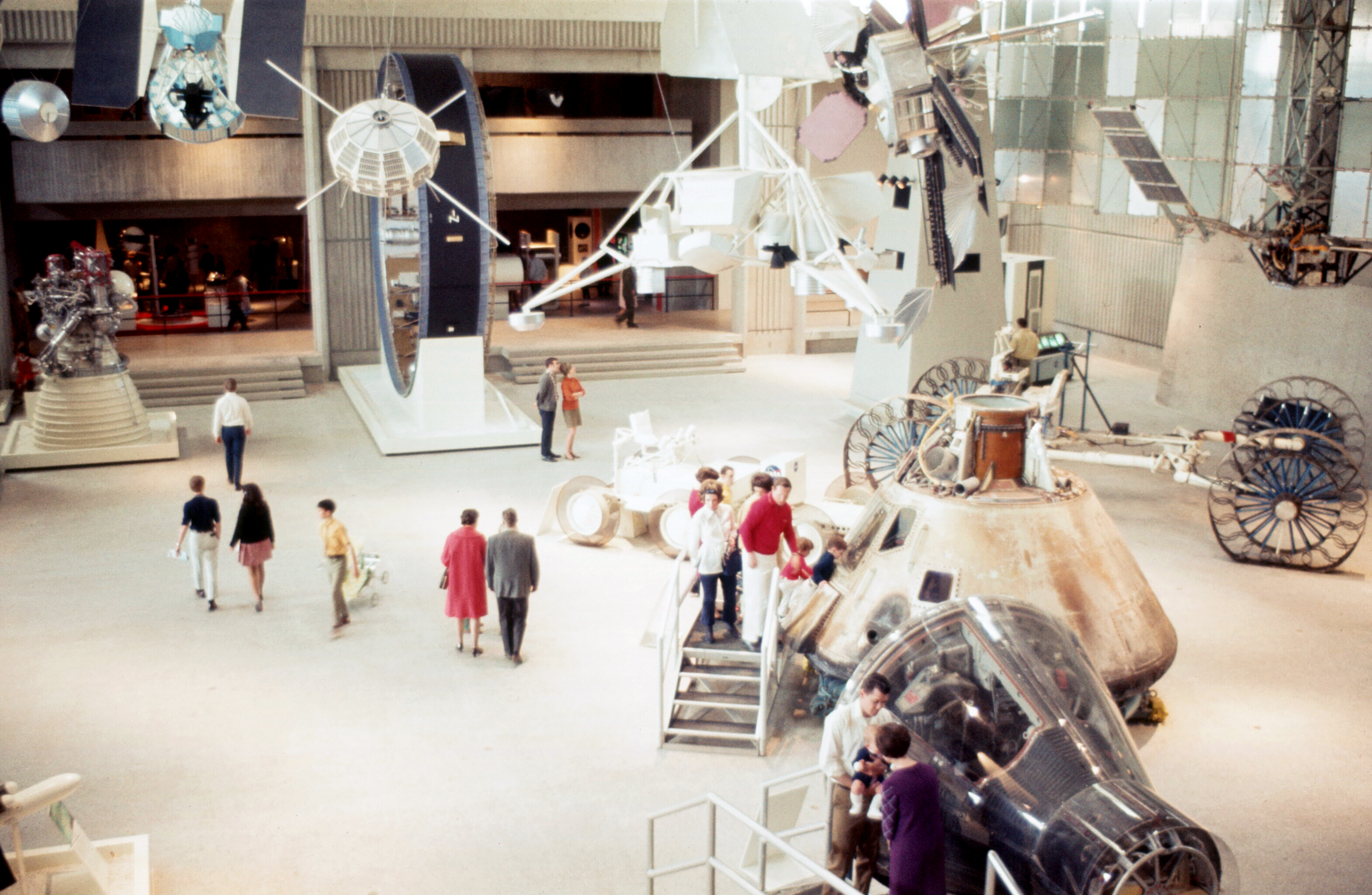 Visitors inspect a Gemini capsule and the Apollo 6 capsule, lunar rovers, a Saturn V Instrument Unit, and other space artifacts on or shortly after opening weekend at the Alabama Space and Rocket Center.